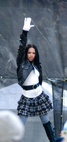 Kiely Williams at The Magnificent Mile 2008 Lights Festival.